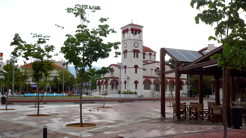 The picture depicts the Vrilissia Square at Vrilissia.